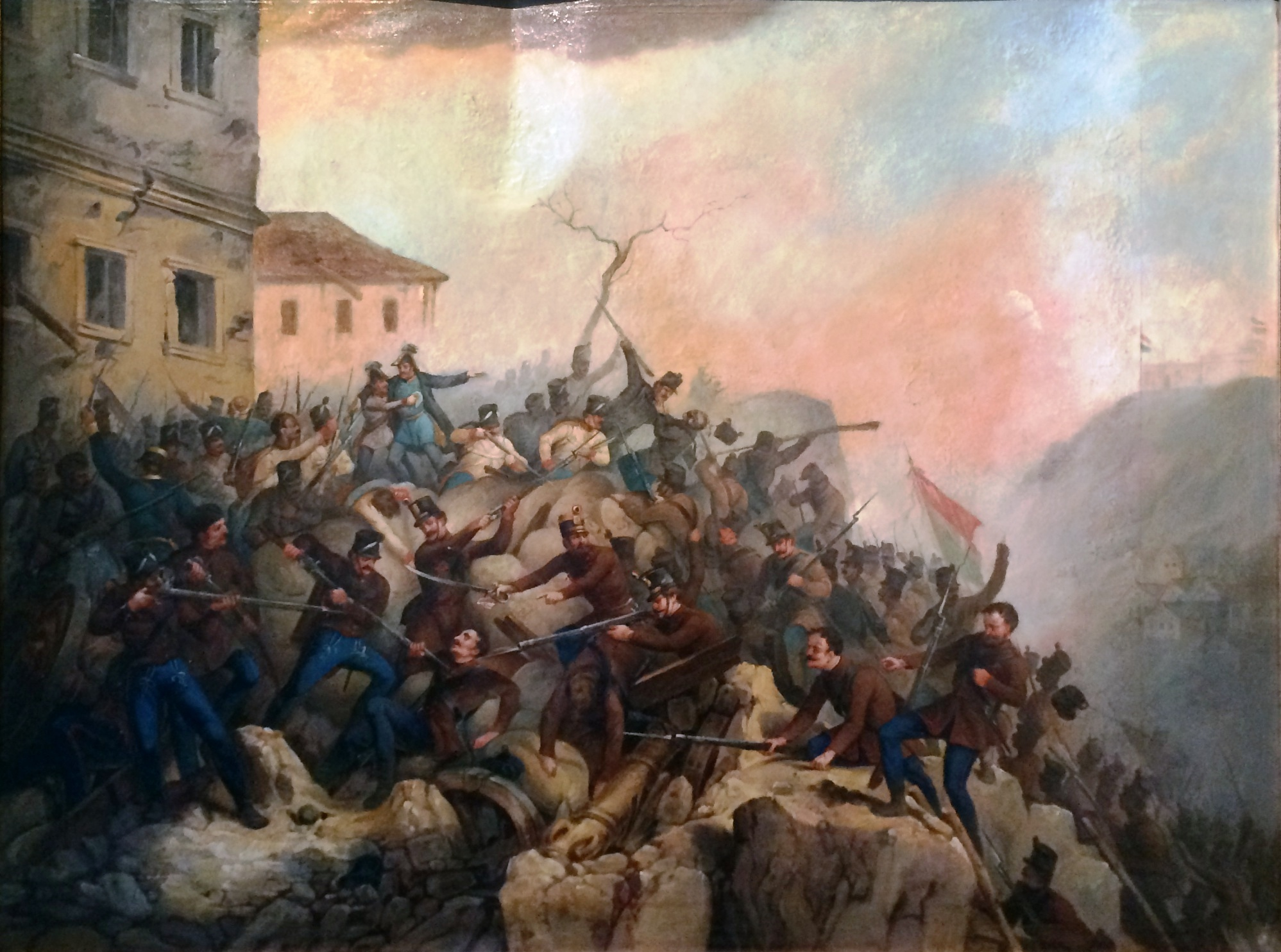 Painting from 1849 by Josef Anton Strassgschwandtner, depicting the siege of Buda (Budapest). Display at the Budapest History Museum